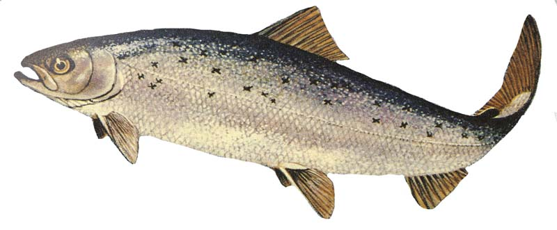 Atlantic salmon. Salmo salar.